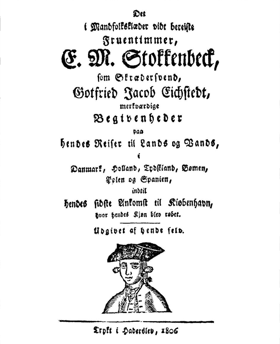 Cropped version of " Cover of the book by Maria Engelbrecht Stokkenbech (E.M. Stokkenbeck) published in 1806 titled Det i Mandfolksklæder vidt bereiste Fruentimmer, E.M. Stokkenbeck, som Skrædersvend, Gotfried Jacob Eichstedt, merkværdige Begivenheder paa hendes Reiser til Lands og Vands, i Danmark, Holland, Tydskland, Boben, Polen og Spanien, indtil hendes sidste Ankomst til Kiobenhavn, hvor hendes Kjon blev robet. Udgivet af hende selv."